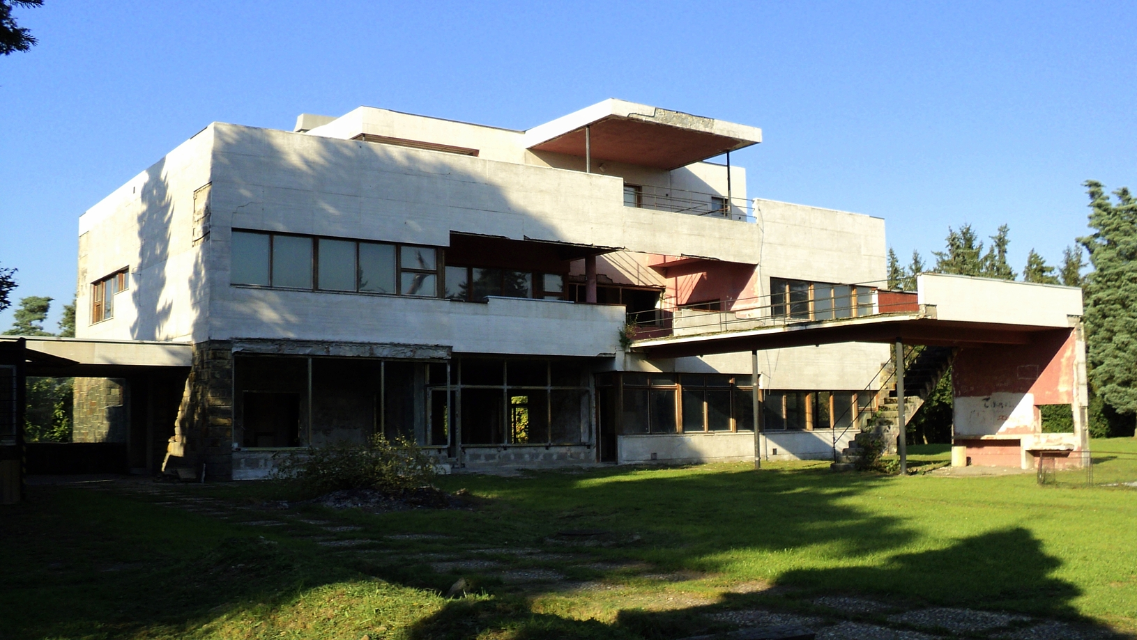 Volman´s Villa